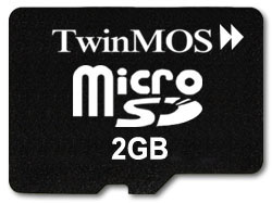 TwinMOS 2GB microSD card.